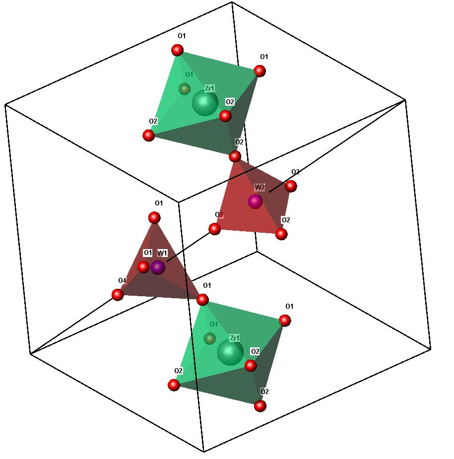 An image of the crystal structure of cubic ZrW2O8. The full unit cell contents are not shown to enable structural features to be clearly shown. The image shows the positioning of the "W2O8 group" (itself consisting of two WO4 tetrahedra) along the body diagonal of the unit cell, and the corner sharing between WO4 and ZrO6 polyhedra.